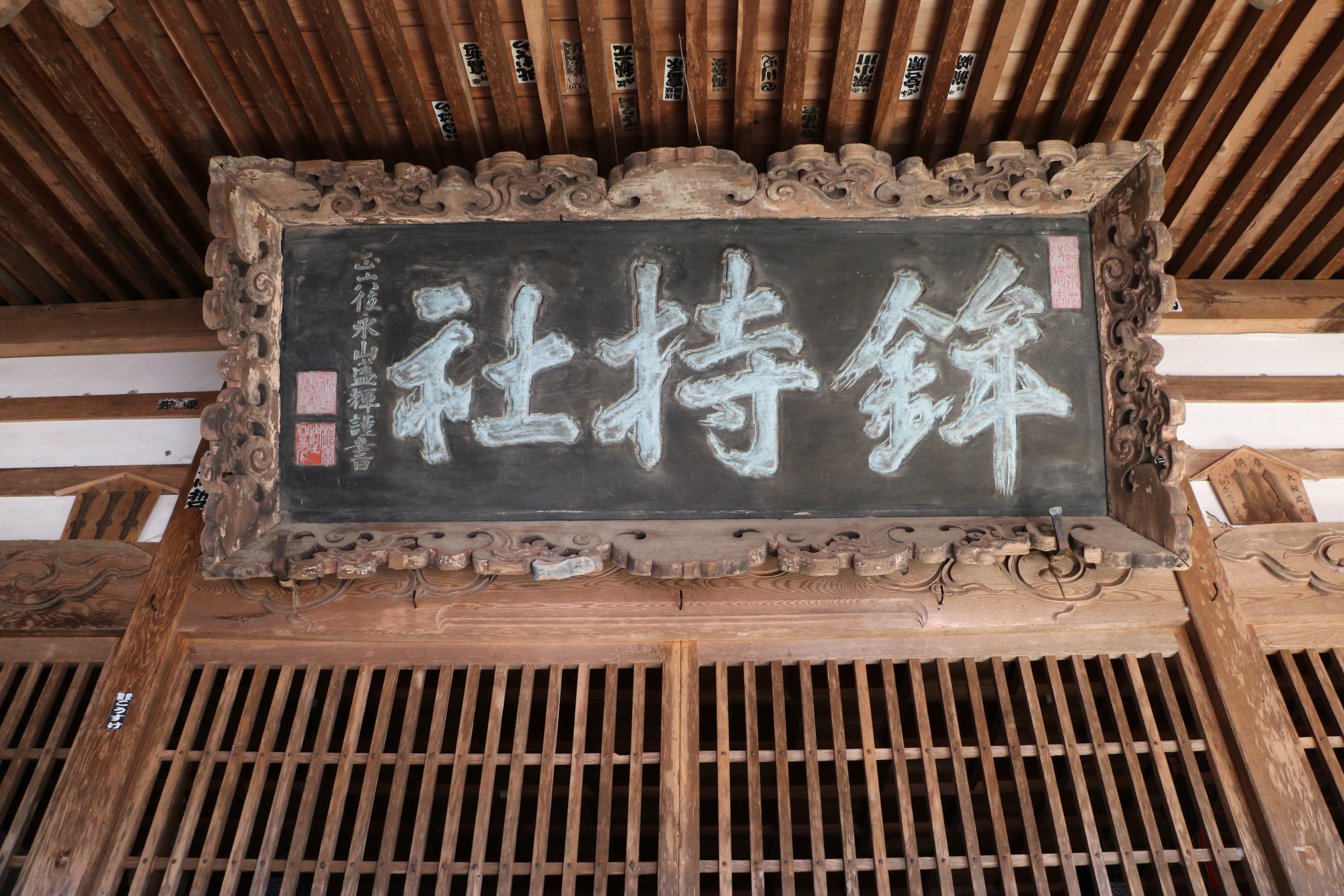 Signboard of Hokoji Shrine wrote by Governor of Chikuma Prefecture Moriteru Nagayama